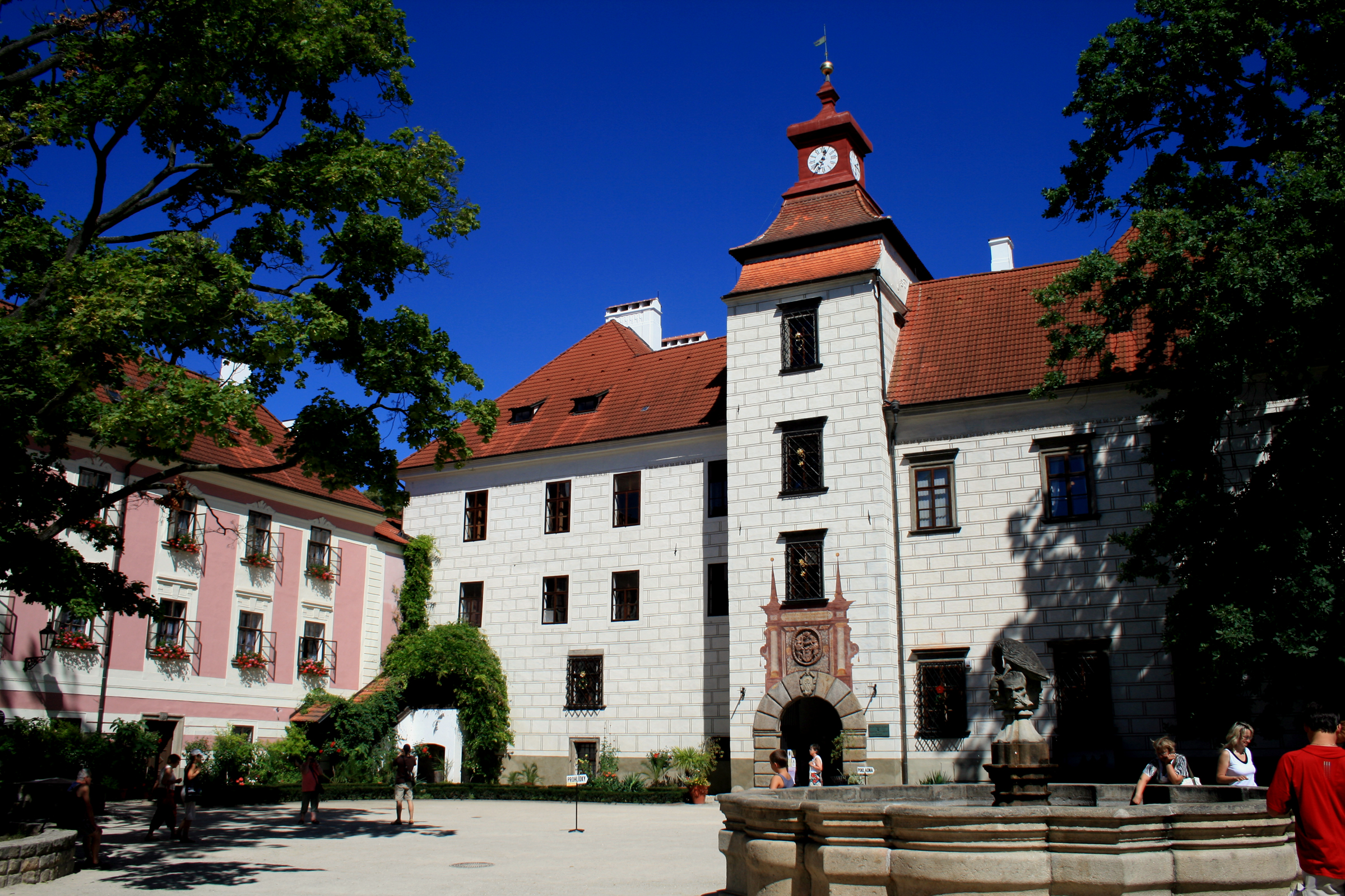 Castle countryard of Třeboň castle, South Bohemia, Czech Republic